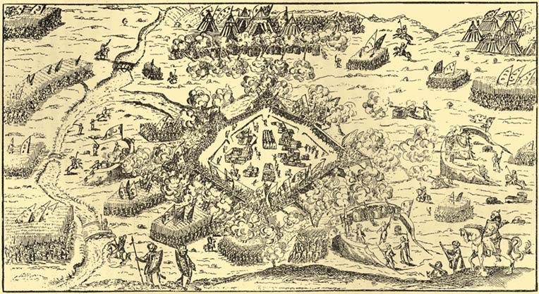 Siege of Neuhausel (Nové Zámky, Érsekújvár) in 1663